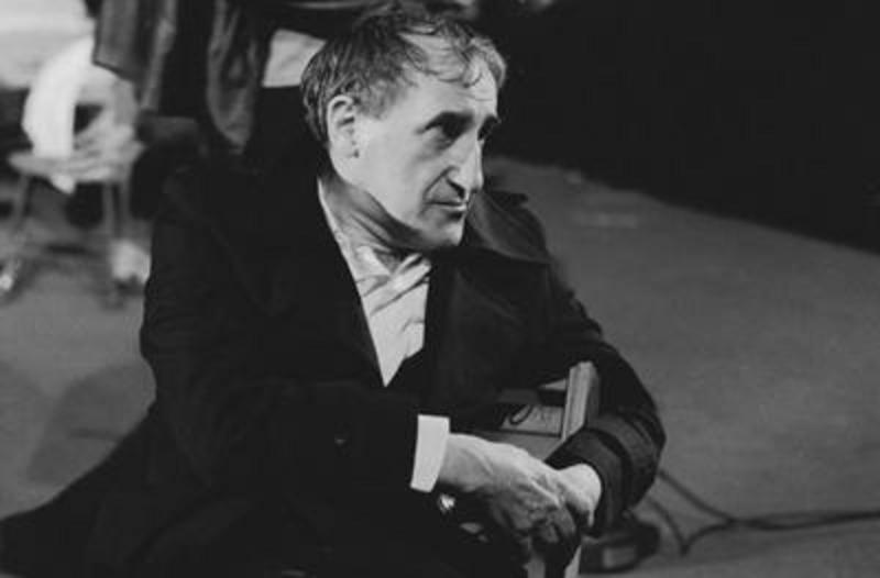 Tadeusz Kantor, a portrait.